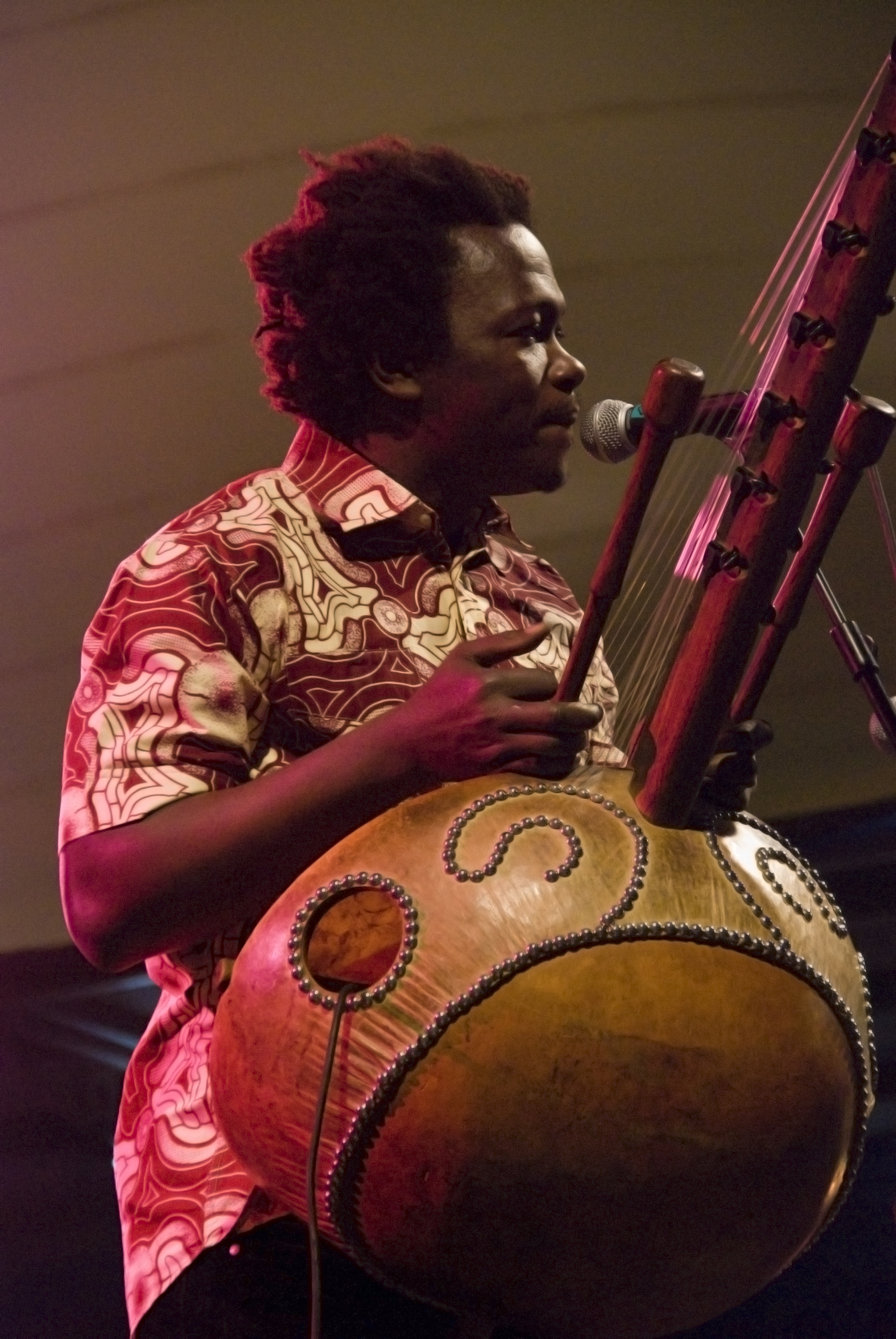 Member of Ba Cissoko playing the kora (21 strings appalaud).